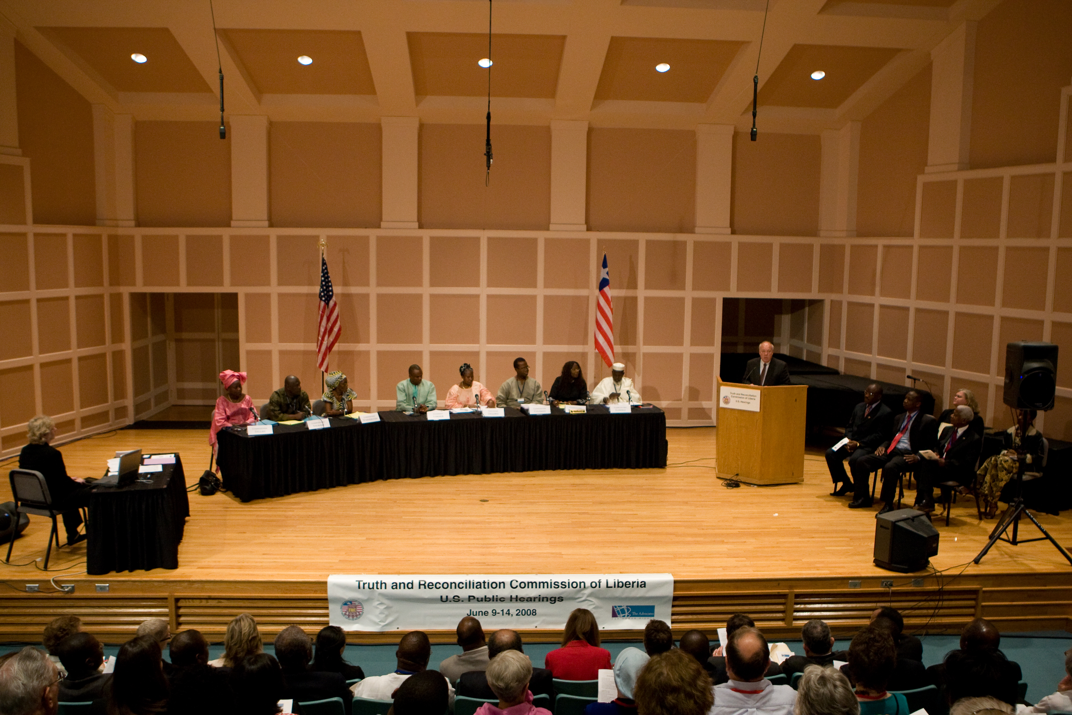 Opening ceremonies for the Liberia TRC Diaspora Public Hearings